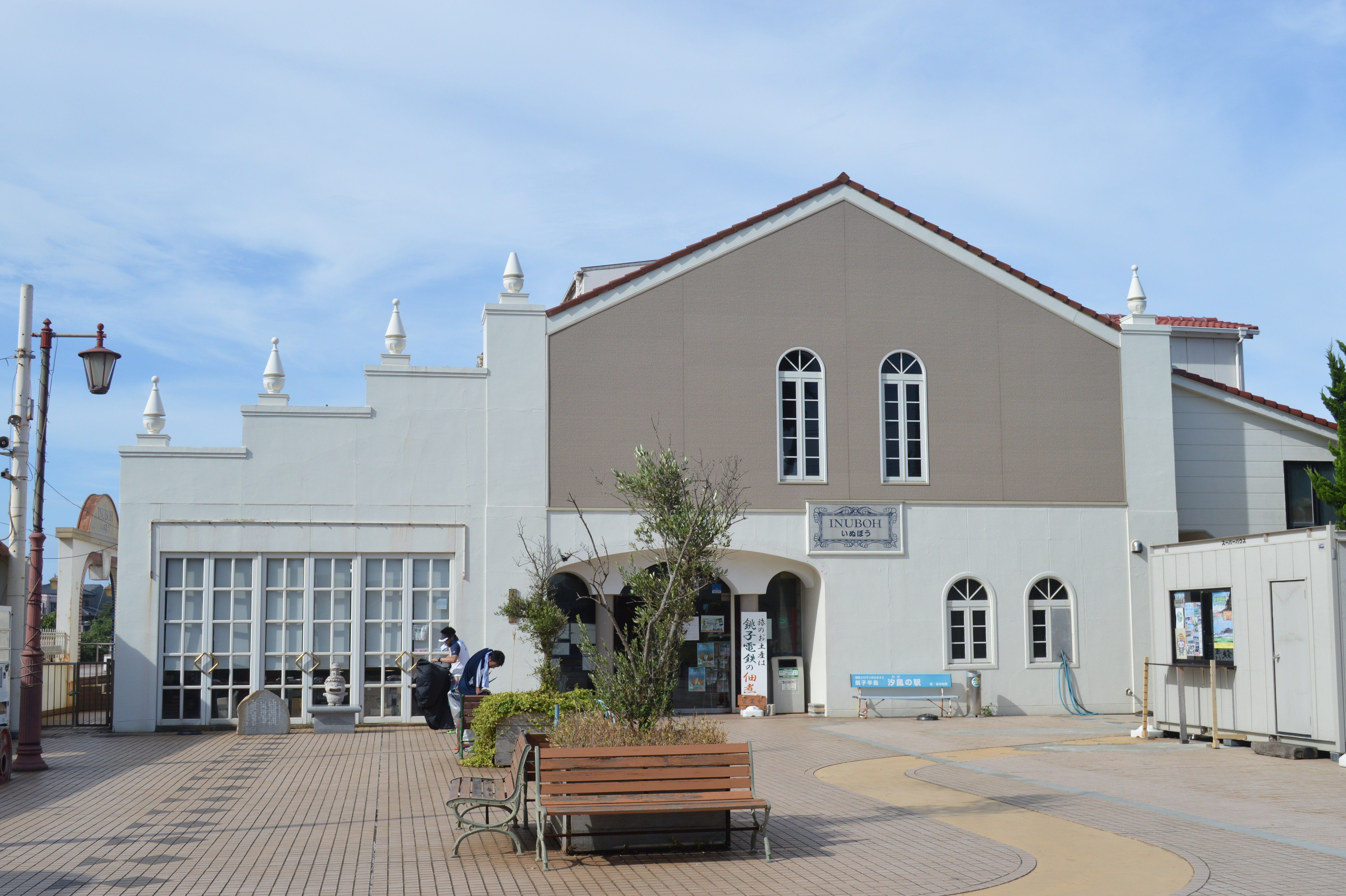 The forecourt of Inuboh Station on the Choshi Electric Railway in Choshi, Chiba, Japan